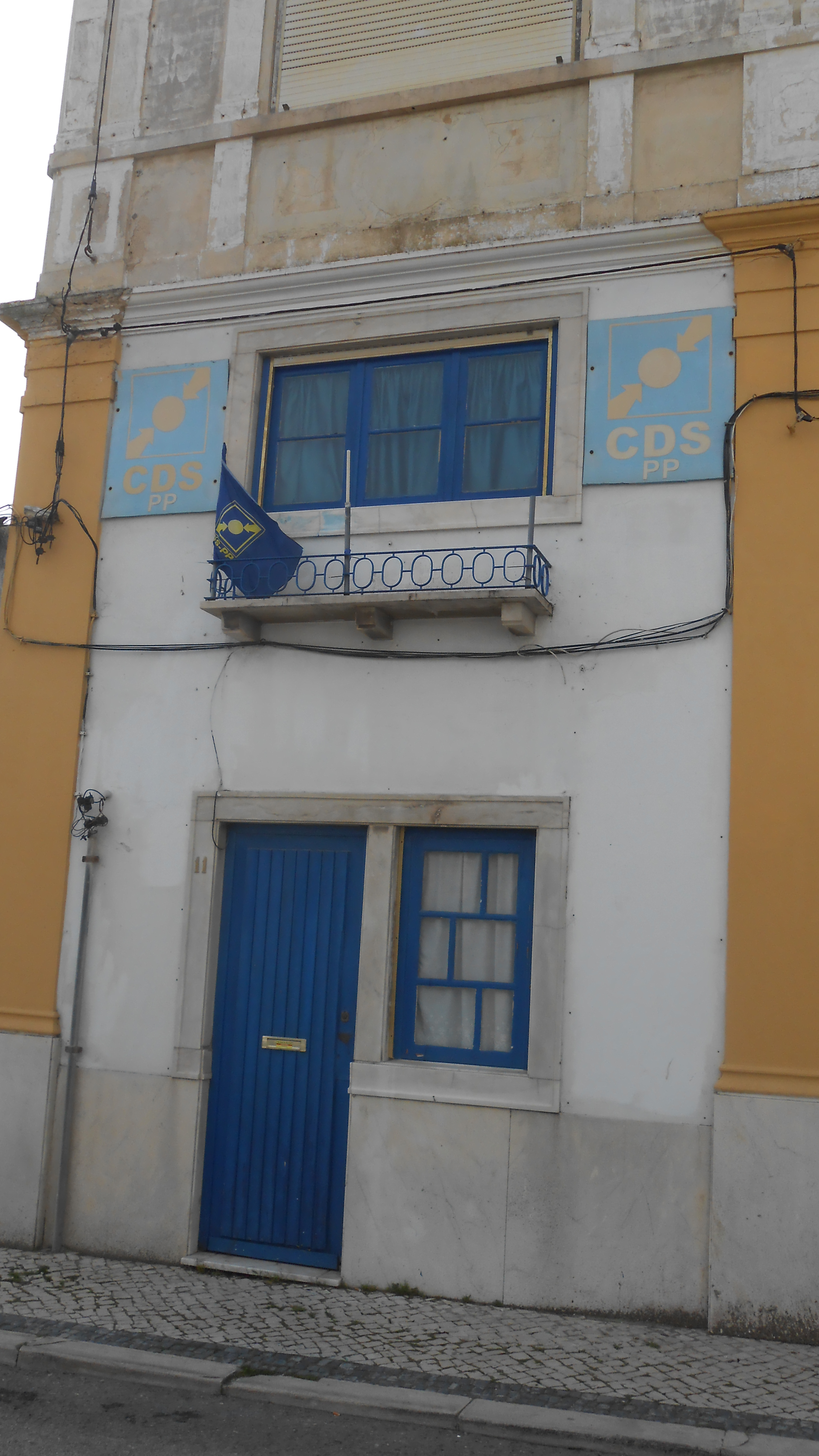 Branch of the party Centro Democrático e Social / Partido Popular in Figueira da Foz